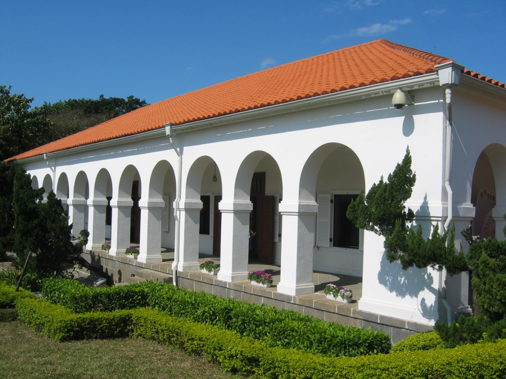 Tamsui Customs Officers' Residence. Photo taken by mingwangx on February 5, 2006.